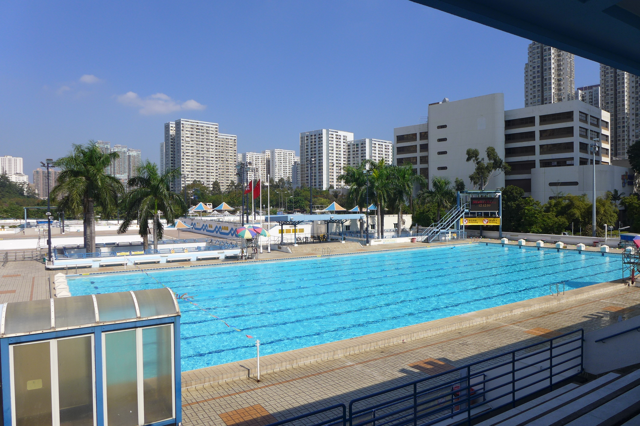 Tuen Mun Swimming Pool